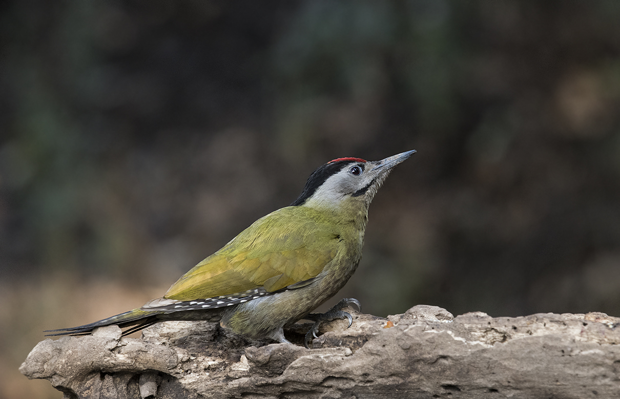 Grey-headed Woodpecker